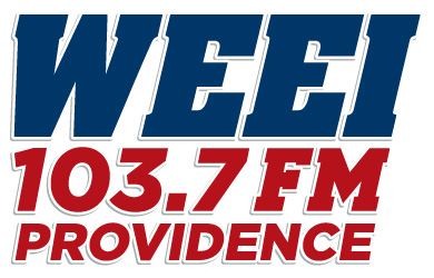 Logo of the radio station WVEI-FM.